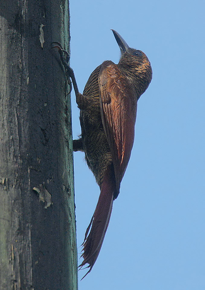 Image taken in Tortuguero, Costa Rica.